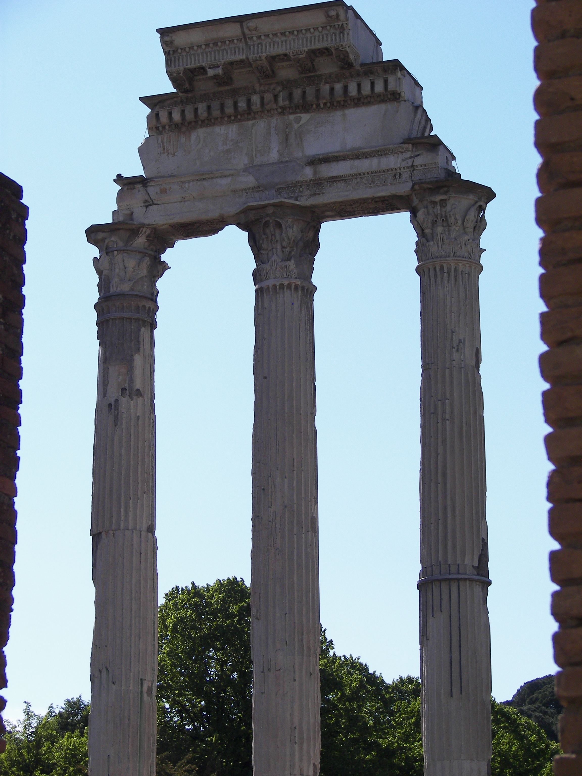 Temple of Castor and Pollux in the Forum Romanum in Rome.